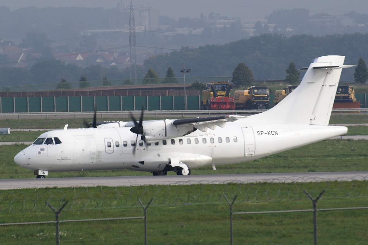 ATR 42 of White Eagle Aviation SP-KCN